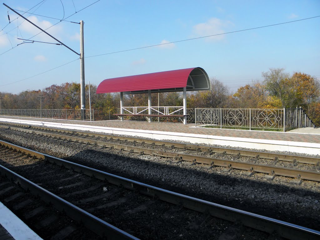 Train halt in Biletskivka, Poltava region